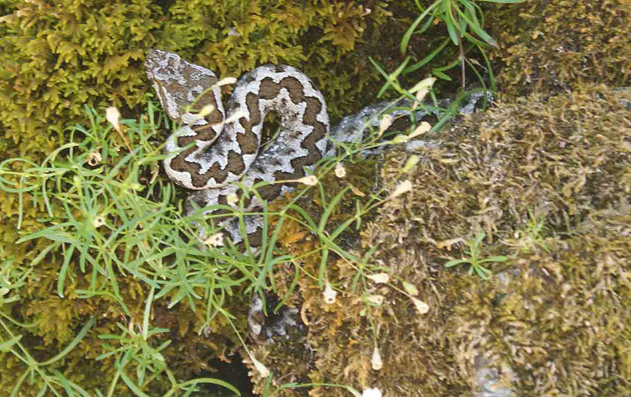 Long-nosed viper in Northern Albania – the snake was lying in the shadow at the spring of Cem River